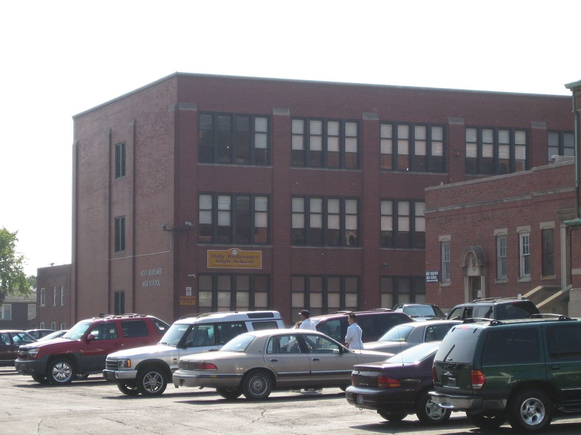 Holy Redeemer High School (Detroit), taken after the final graduation